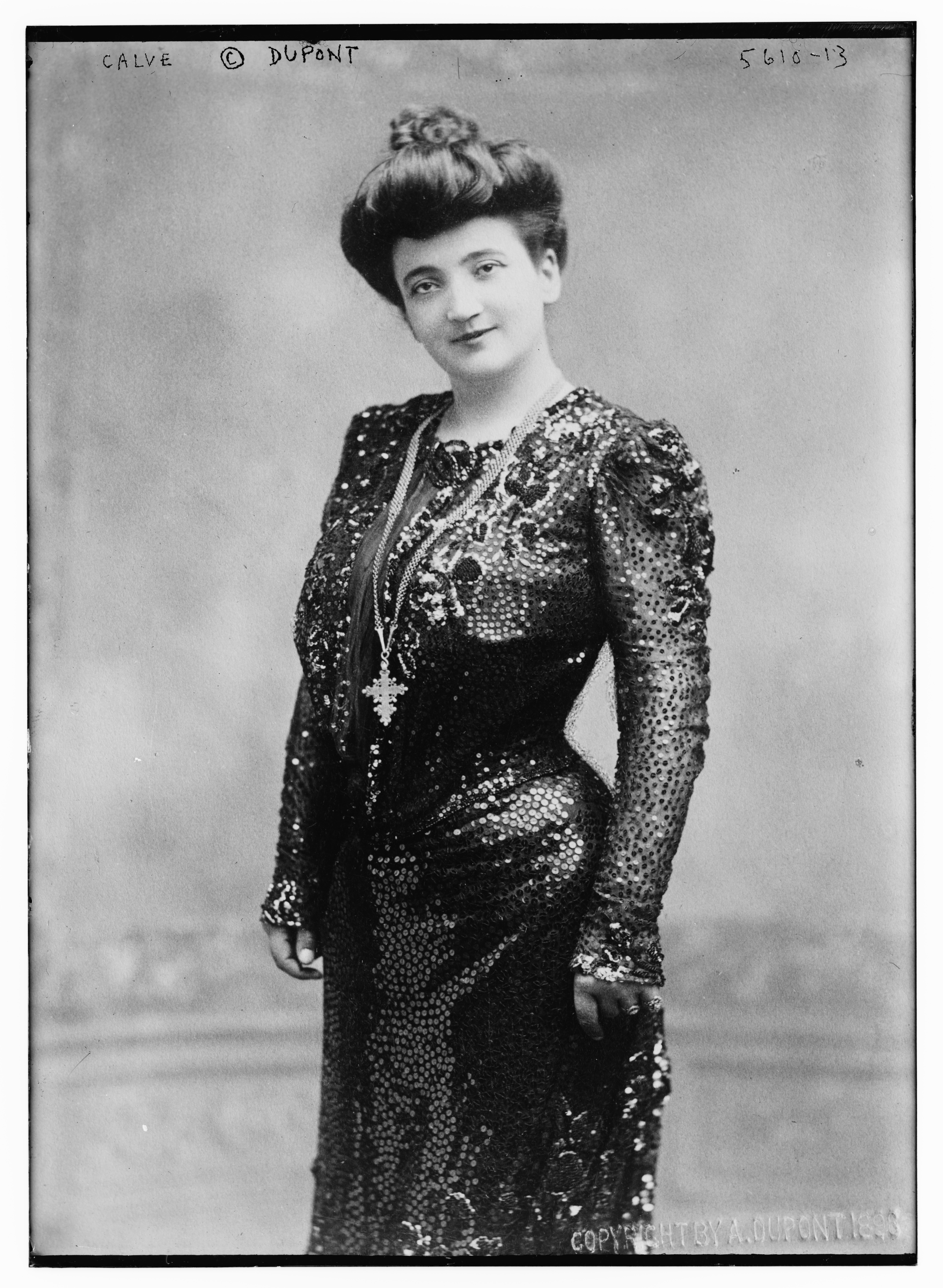 Title: Calve Abstract/medium: 1 negative : glass ; 5 x 7 in. or smaller.